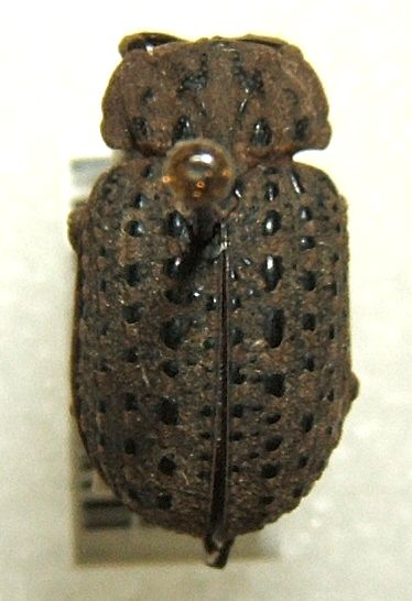 Omorgus asper adult taken by Shawn Hanrahan at the Texas A&M University Insect Collection in College Station, Texas. Cropped version of Omorgus asper sjh.jpg.